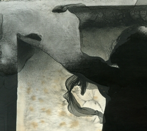 Detail of a mordançage process photograph. Shows bleaching, etching, veiling, and oxidation effects.